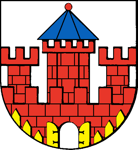 Coat of arms of the Stadt (town) Ratzeburg in Schleswig-Holstein, Germany.